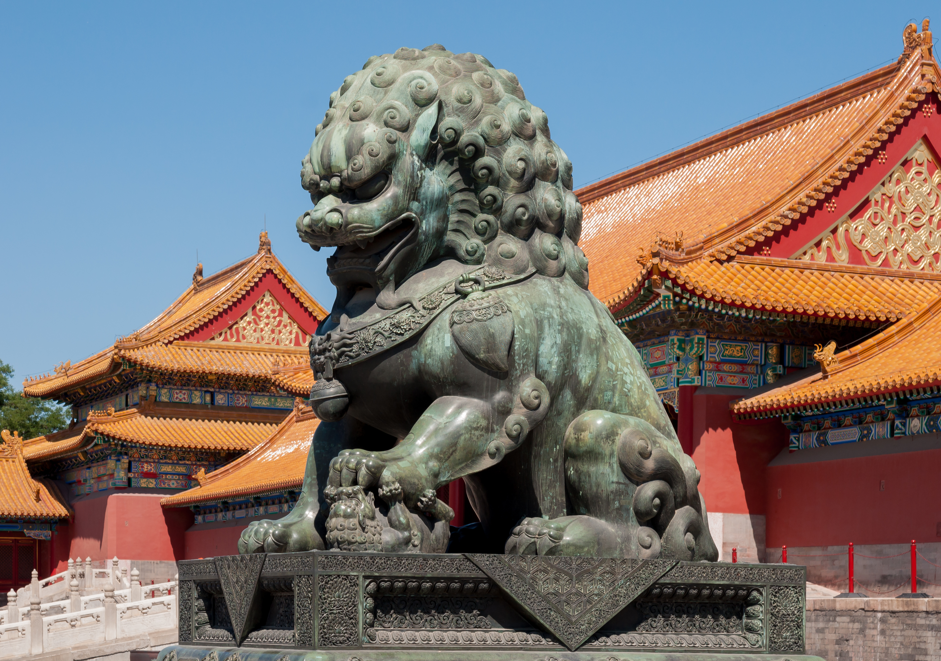 Beijing, China: Bronze lion in front of the Gate of Supreme Harmony in the Forbidden City